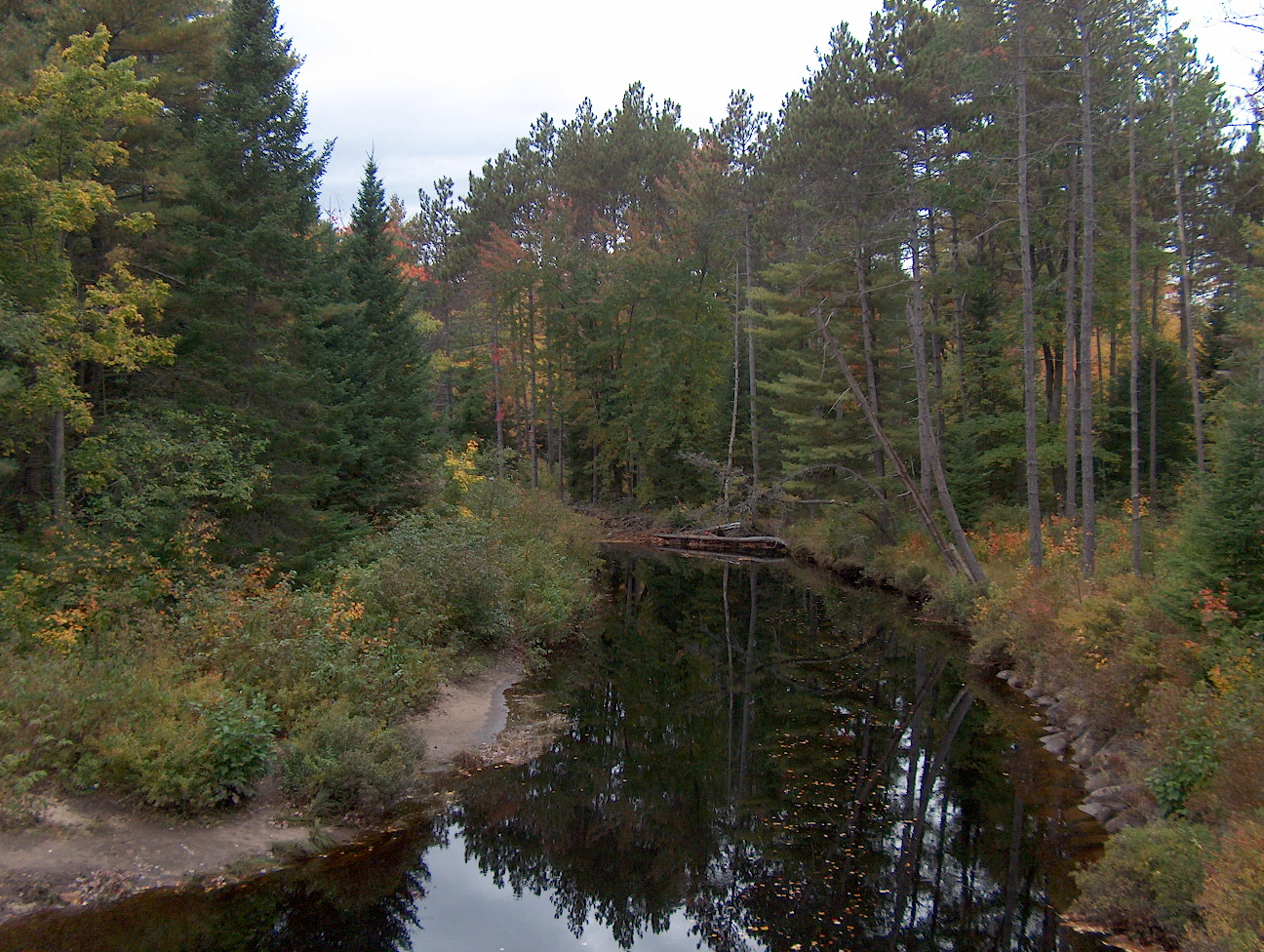 The Pine River from Elm St. bridge, Effingham, New Hampshire. Photo by Ken Gallager, Oct. 3, 2008.